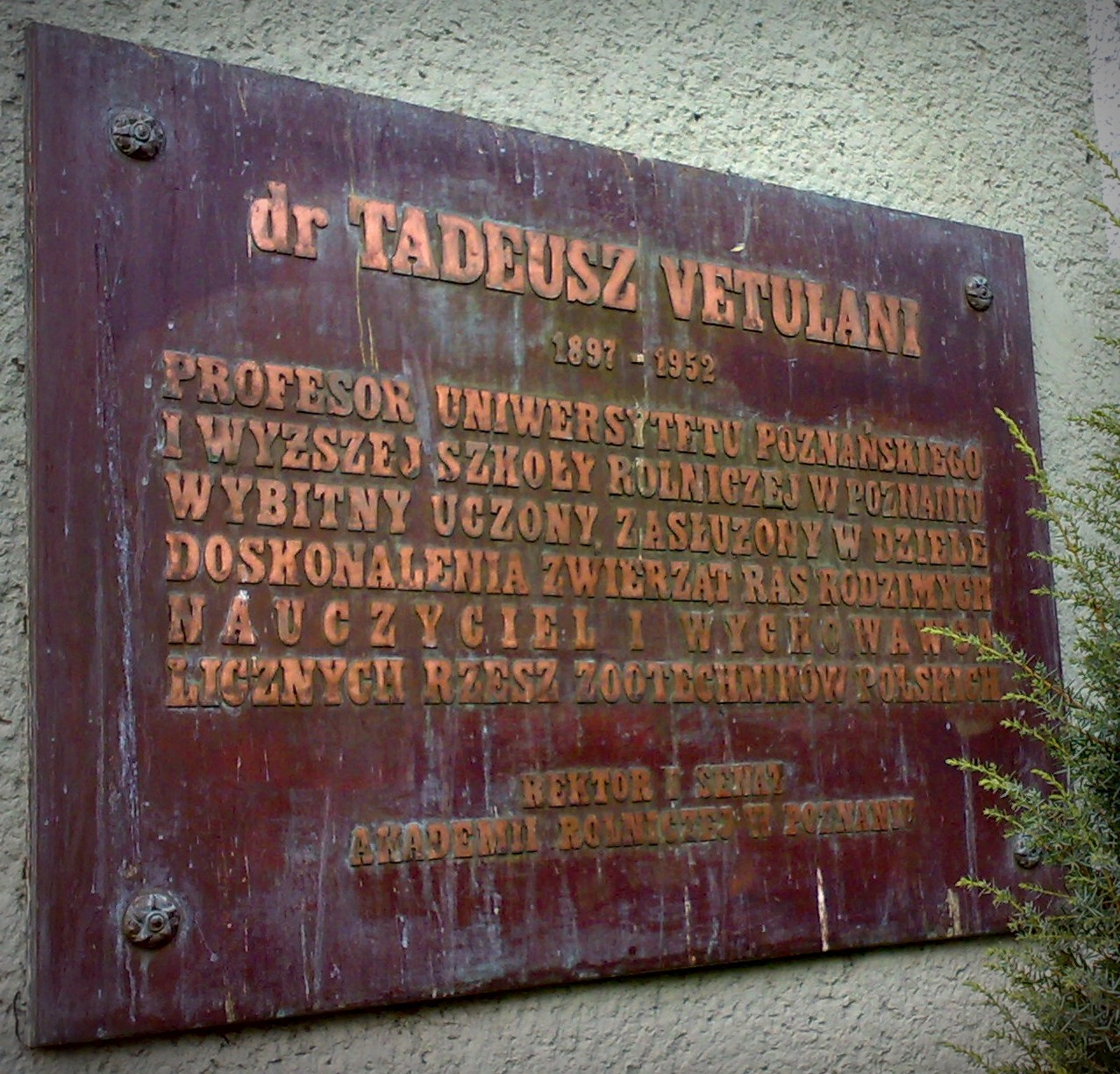 Tadeusz Vetulani Plaque, Poznan.